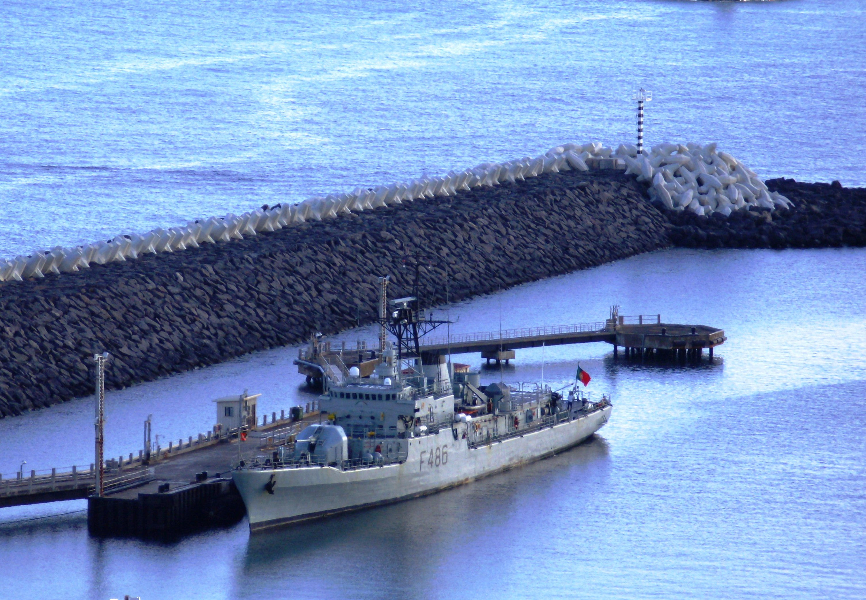 NRP Baptista de Andrade (F486) in Praia da Vitória, Terceira island, Azores.